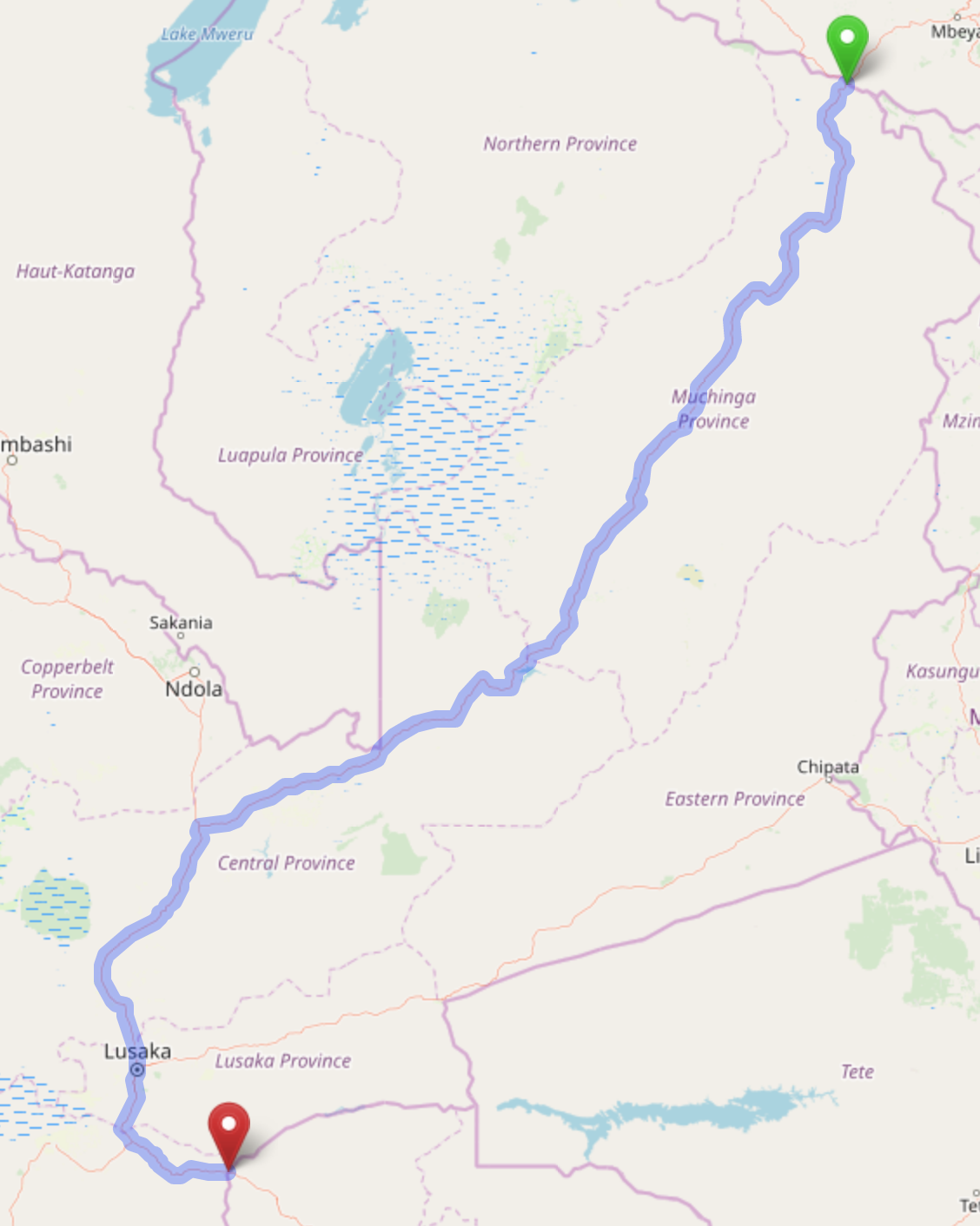 Map of the T2 road in Zambia This map of Zambia was created from OpenStreetMap project data, collected by the community. This map may be incomplete, and may contain errors. Don't rely solely on it for navigation.